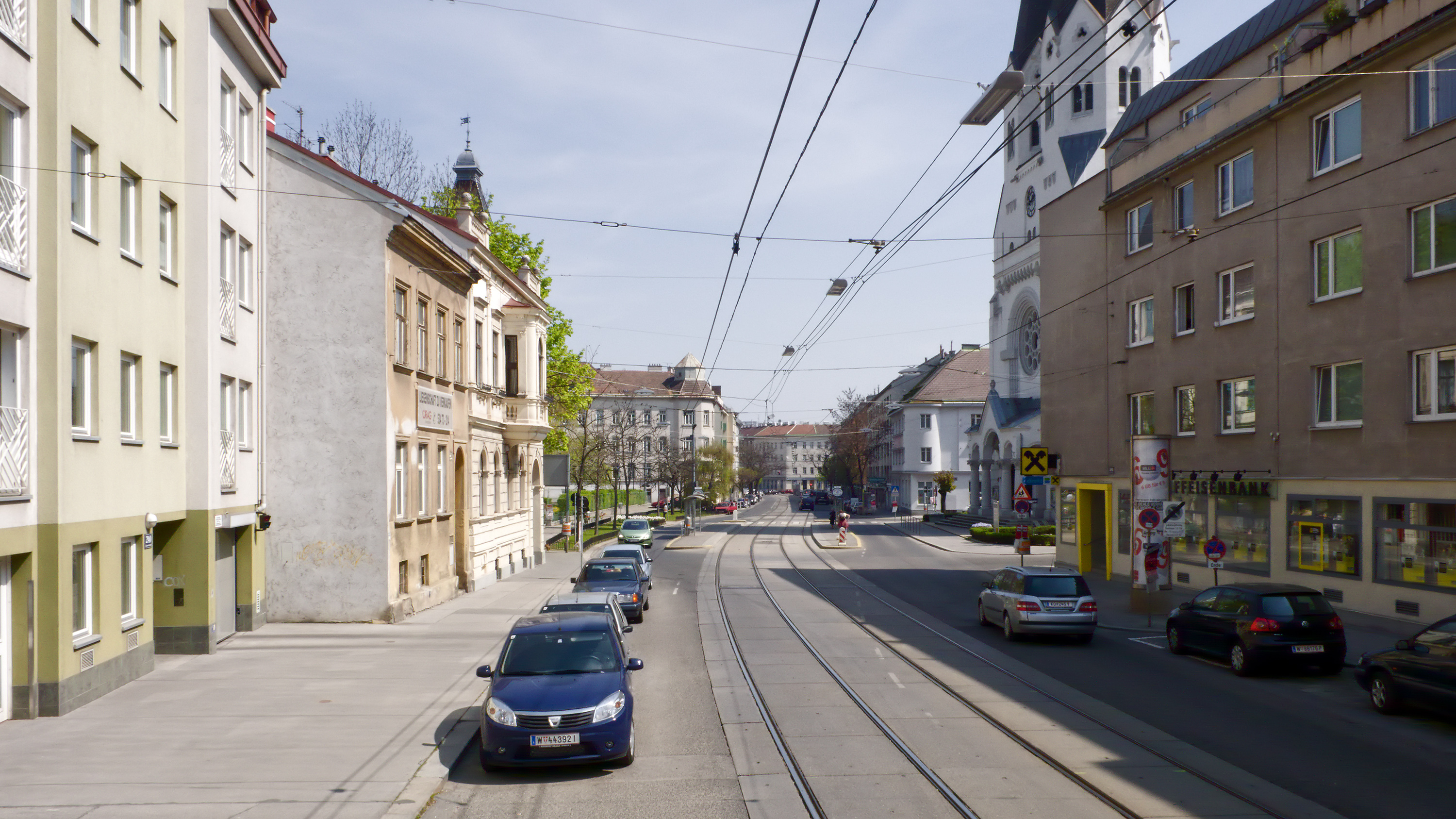 Linzer Straße near Nr. 259 in Vienna Penzing